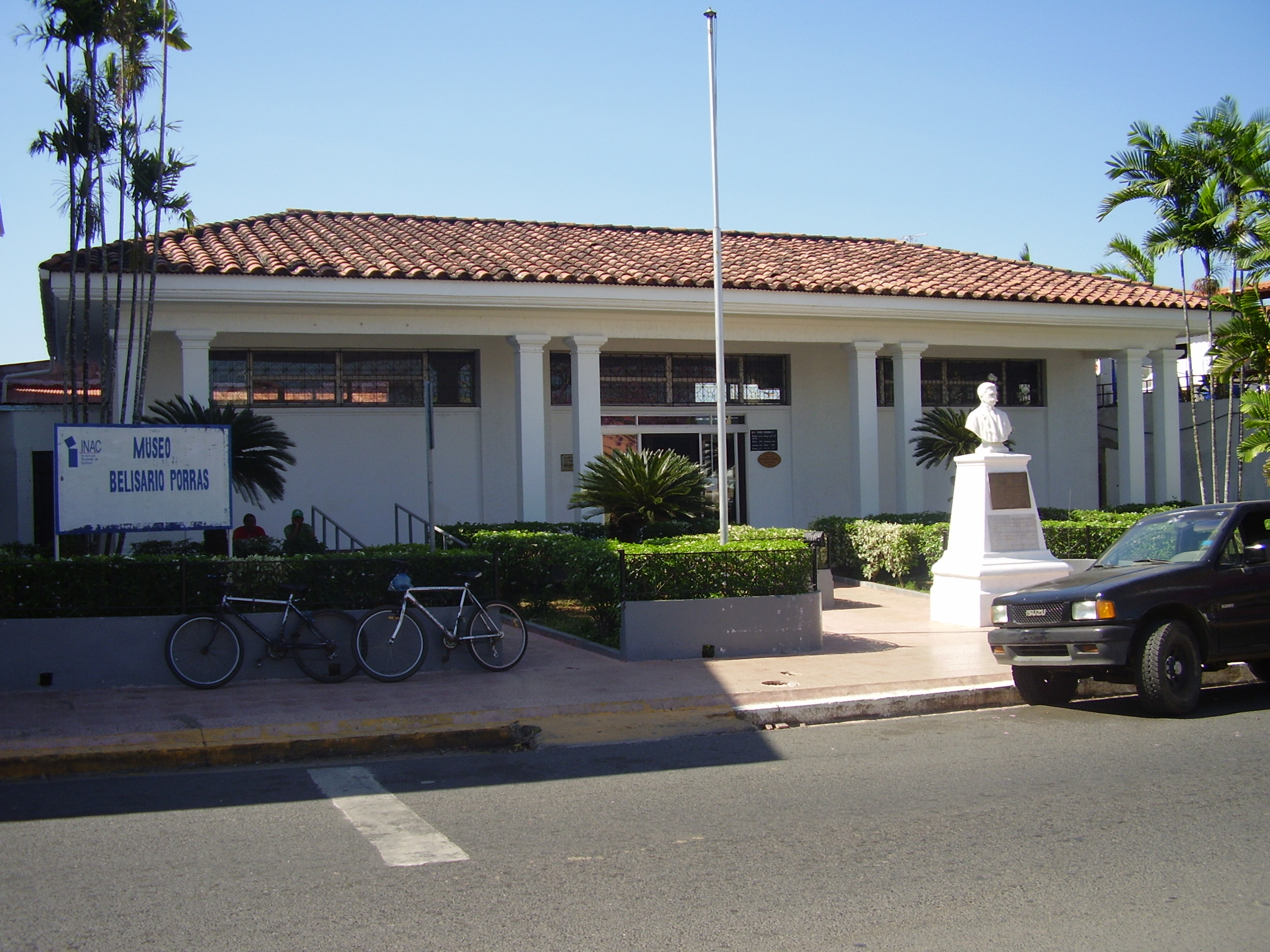 This is the mousoleum of Mr. Belisario Porras, three times President of the Republic of Panama